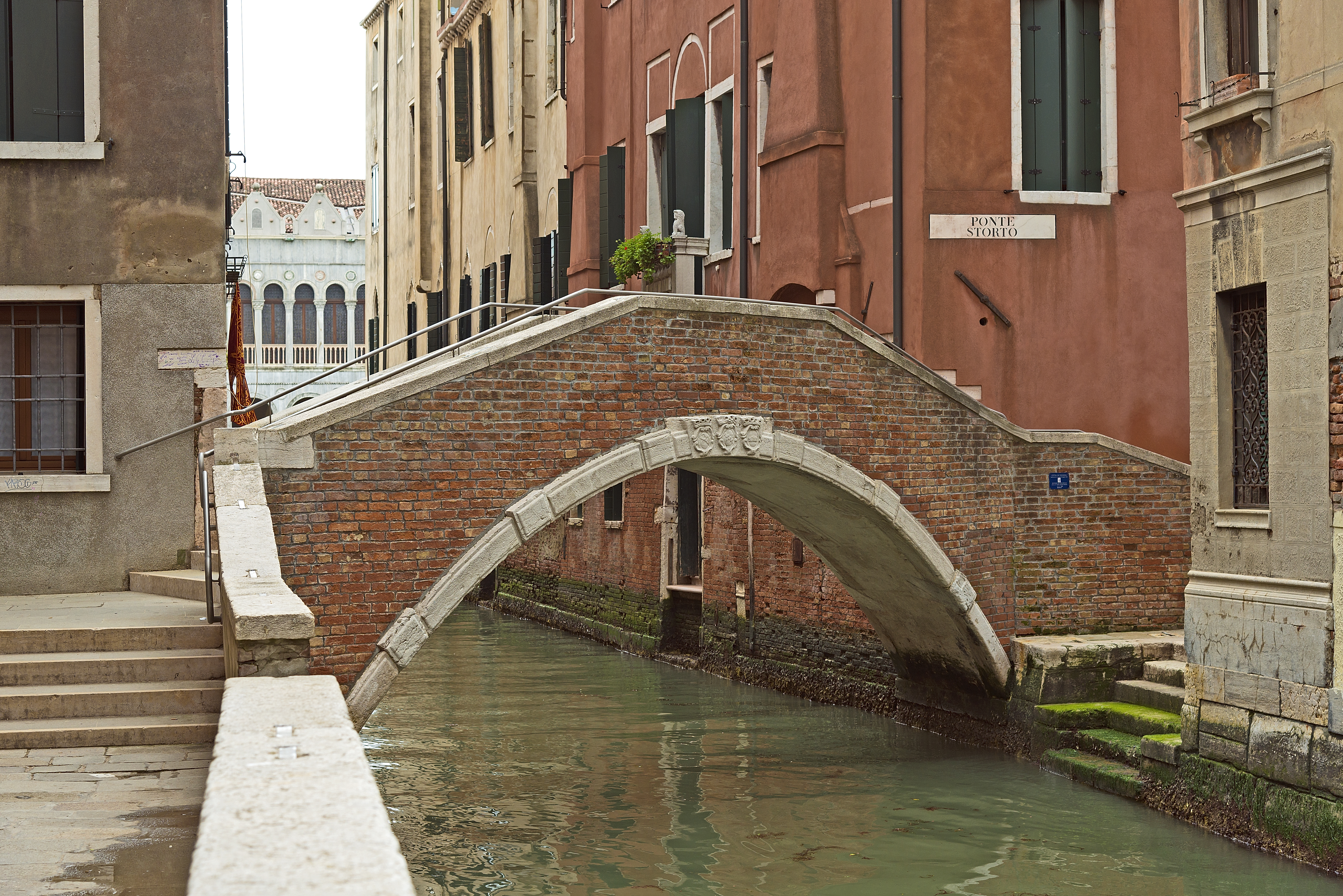 Ponte Storto in Cannaregio Venice.